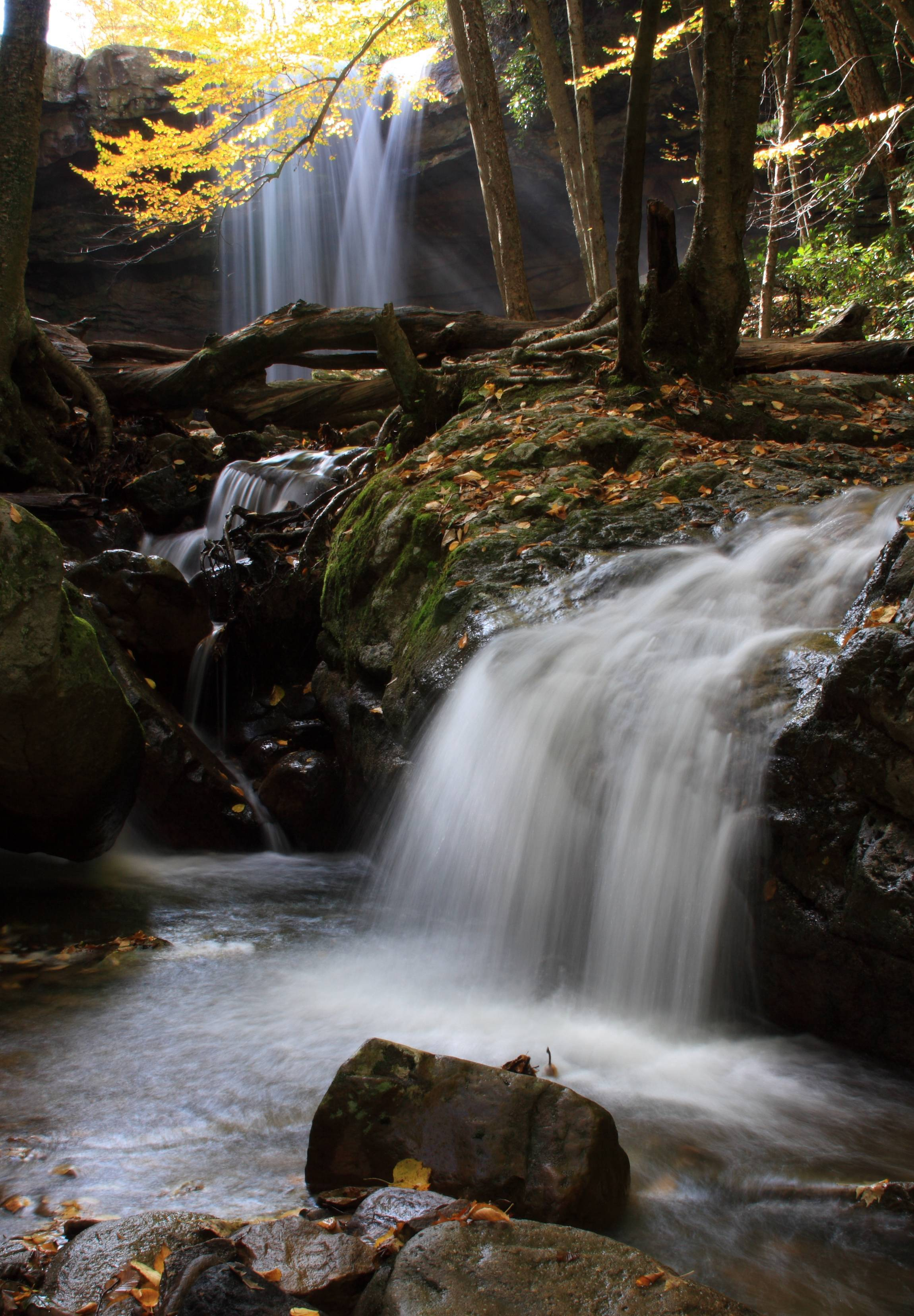 Taken at Ohiopyle State Park in Southwest PA in October 2009. The Yough is known for good rafting - there are also a lot of short hiking trails in the area - go check it out if you have a chance!